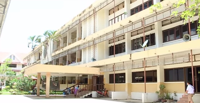 visuttharangsi school in kanchanaburi